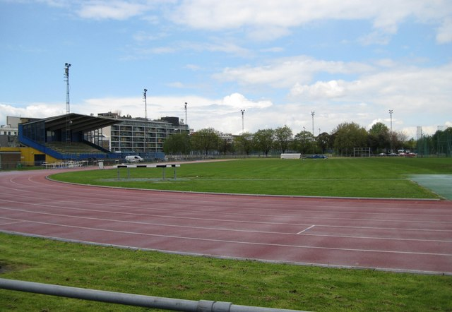 Mile End Stadium, Rhodeswell Road, E14 The stadium was originally built as the King George V Stadium with a cinder running track. It subsequently became known as the East London Stadium, and then became the Mile End Stadium when it was reopened with a synthetic running track in 1990.